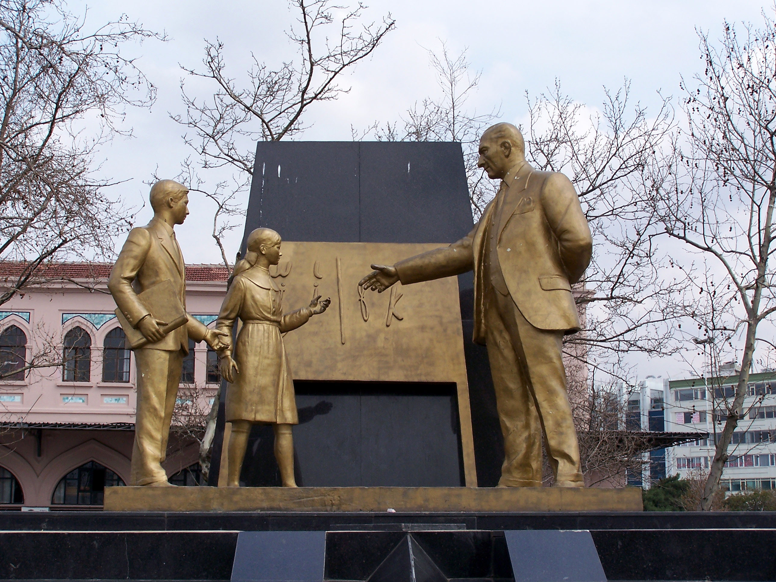 Memorial commemorating 1928 Atatürk's reform of alphabet (introducing the Latin-based Turkish alphabet) in Kadıköy, İstanbul, Turkey.